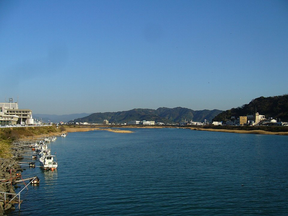 Minoshima river in Arida City, Japan